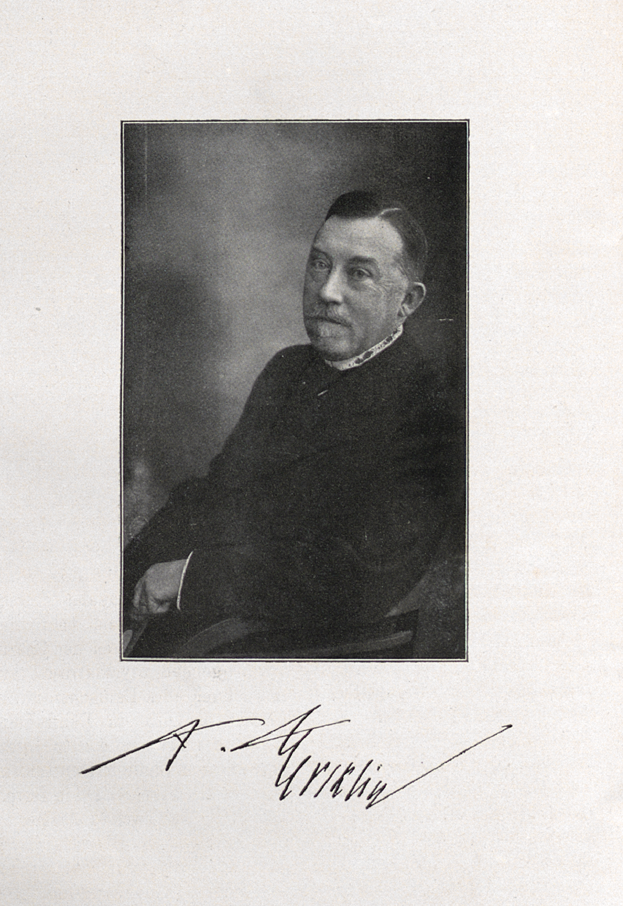 August Mercklin (1855-1928)